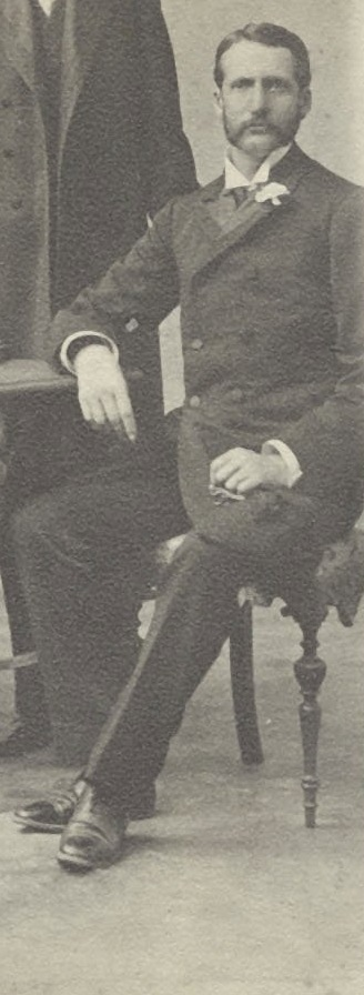 The Ecuadorian Politician and Poet, Dr. Remigio Crespo Toral, in 1906.